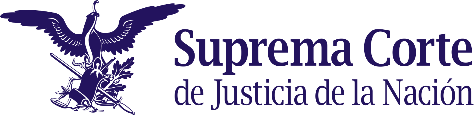 Logo of the mexican National Supreme Court of Justice.